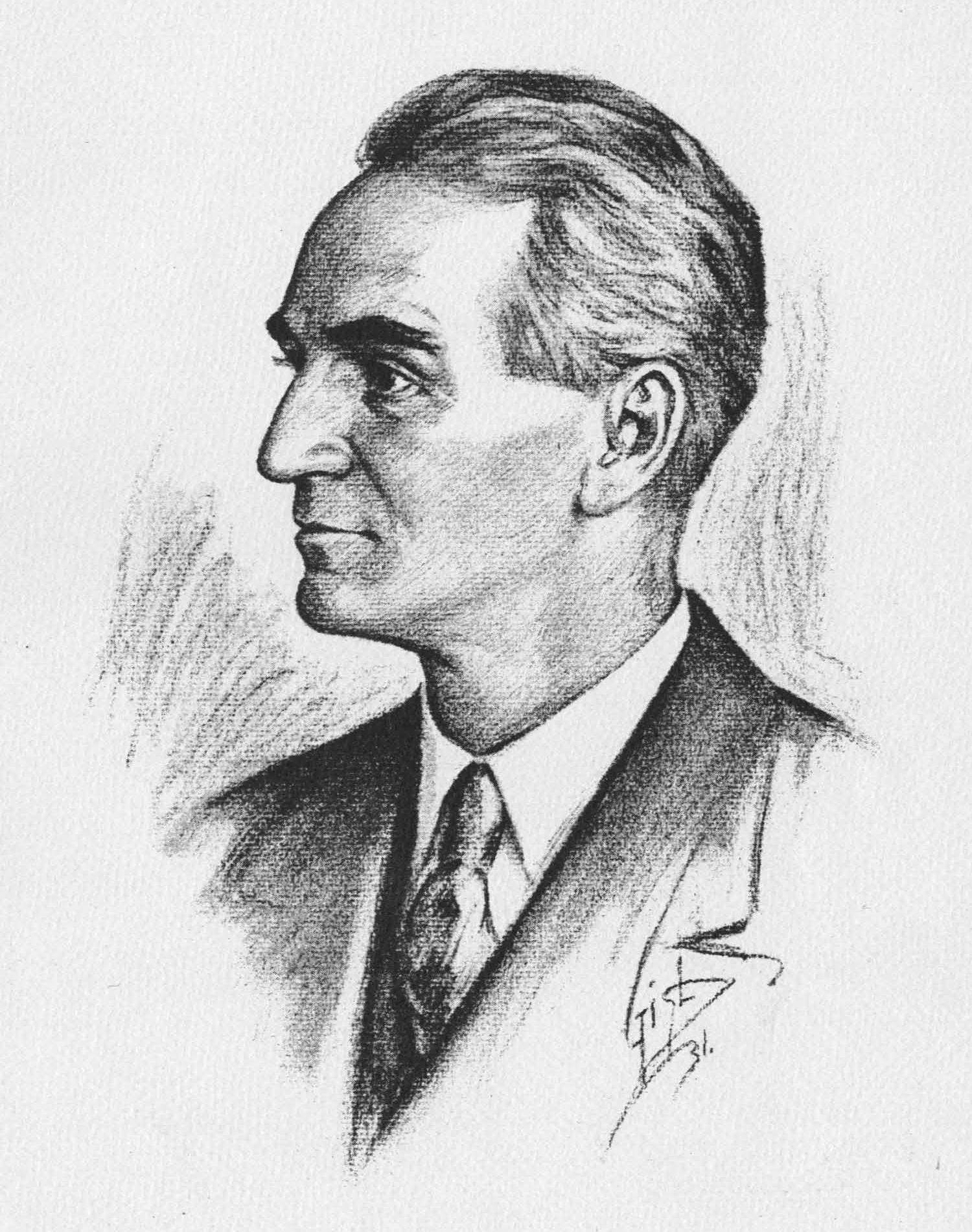 1931 sketch of California Institute of Technology Professor Eric Temple Bell